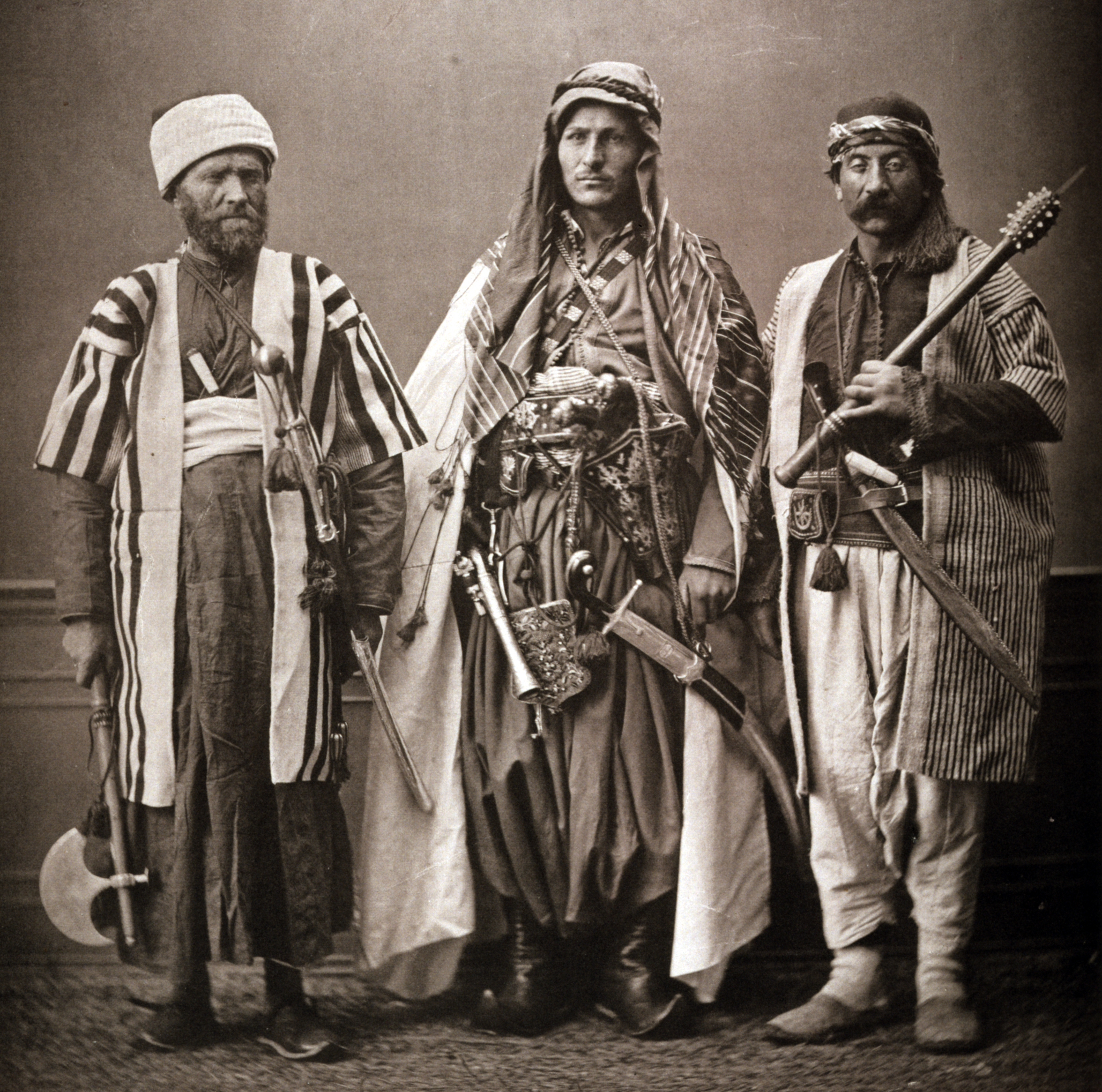 (1): Christian mountain dweller of Zahlè (Zaḥlah) (2): Christian mountain dweller of Zgarta (Zgharta) and (3) Druze of Liban (Lebanon). Les Costumes Populaires De La Turquie, en 1873.A collection of photographs by the famous photographer Pascal Sebah on the occasion of the universal exposition in Viena in 1873. The album represents the costumes of the different regions, and ethnic and religious groups of the Ottoman Empire.